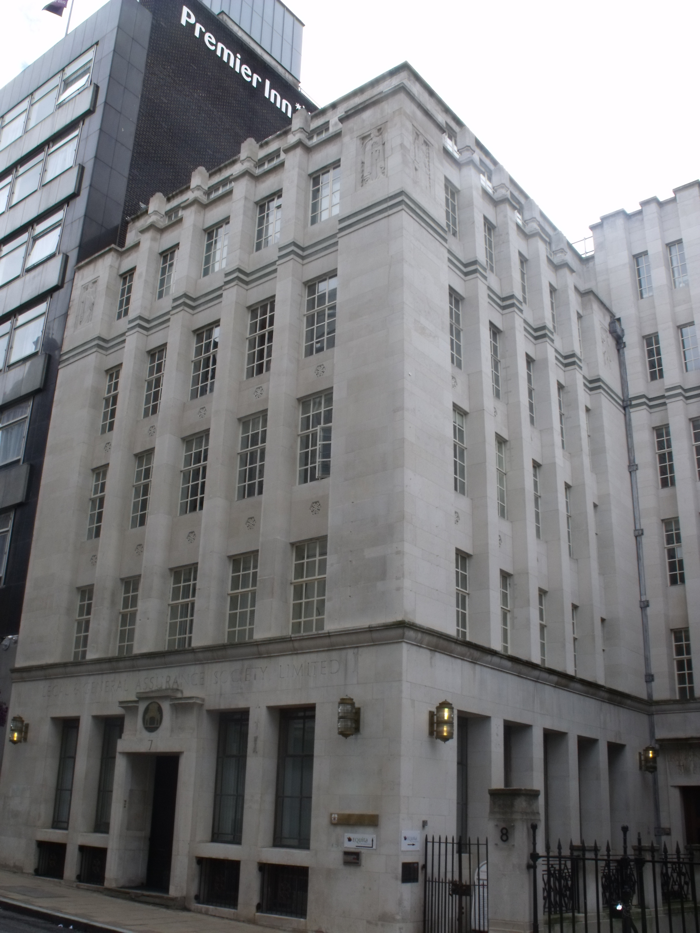 The Legal & General Assurance Society Limited building at 7 Waterloo Street, Birmingham. The Legal & General Assurance Society Limited was established in 1836. Grade II listed office building. 1931-33 by S.N. Cooke and E. Holman for the Legal and General Assurance Society. Portland stone ashlar cladding to a steel frame structure. William Bloye reliefs on exterior.